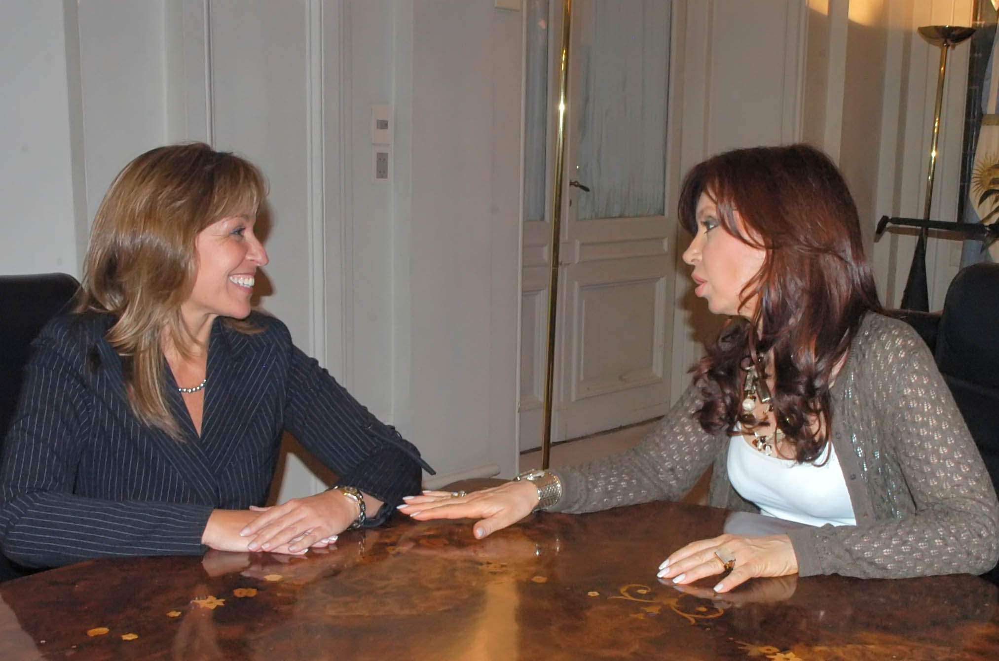 Secretary of State for Latin America Trinidad Jiménez of Spain and the First Lady of Argentina Cristina Kirchner. October 18, 2006 at Pink House, Buenos Aires.